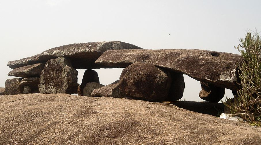 Andhra Pradesh: In Andhra Pradesh there is an evidence of dolmens existence in Amadalavalasa Town, Megalithic Dolmen (said to be world's large single capstone as a dolmen with 36 ft in length and 14 ft in width and 2 ft thickness) of early Iron Age at Dannanapeta near Amadalavalasa Town